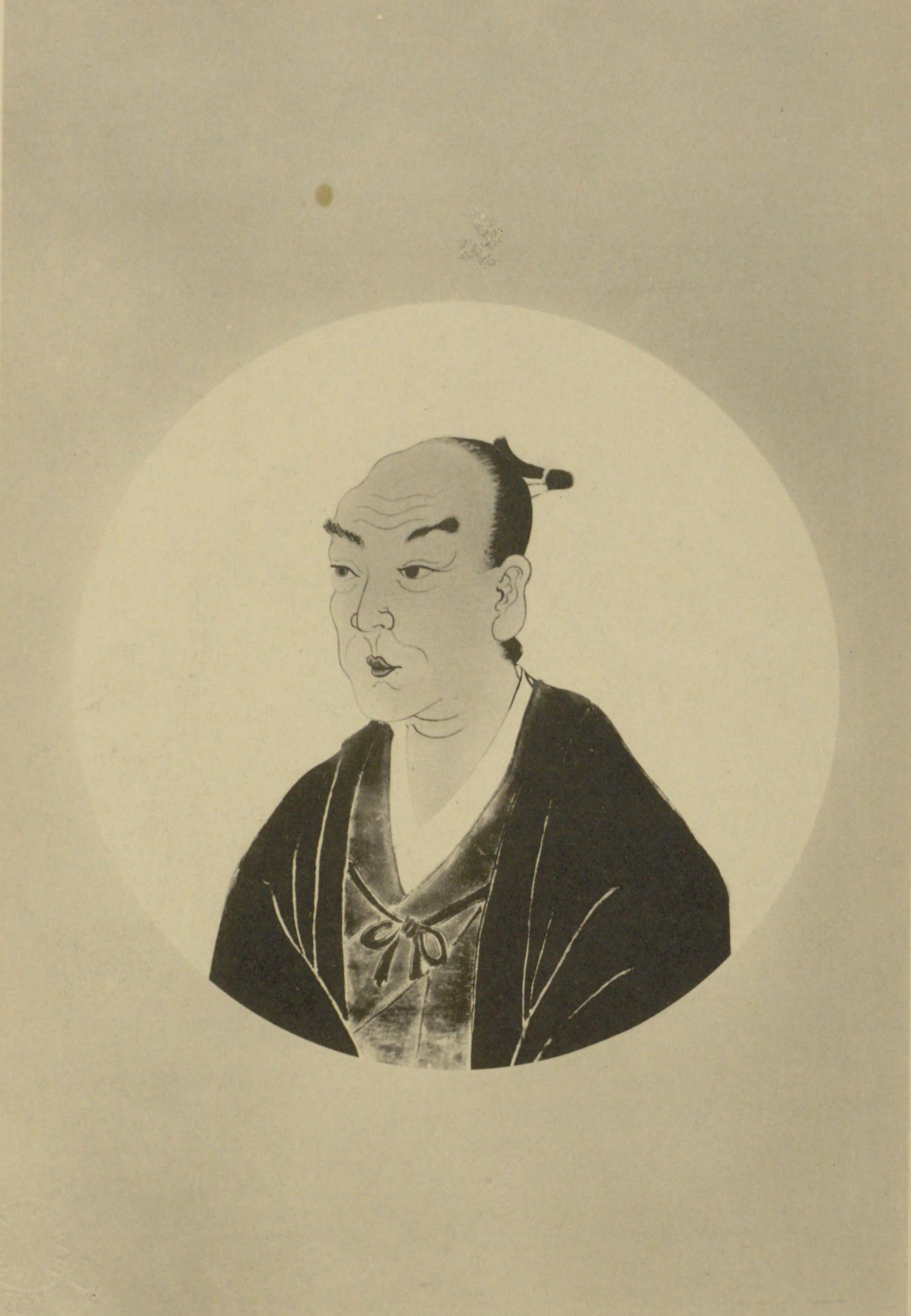 Portrait of Terai Genkei